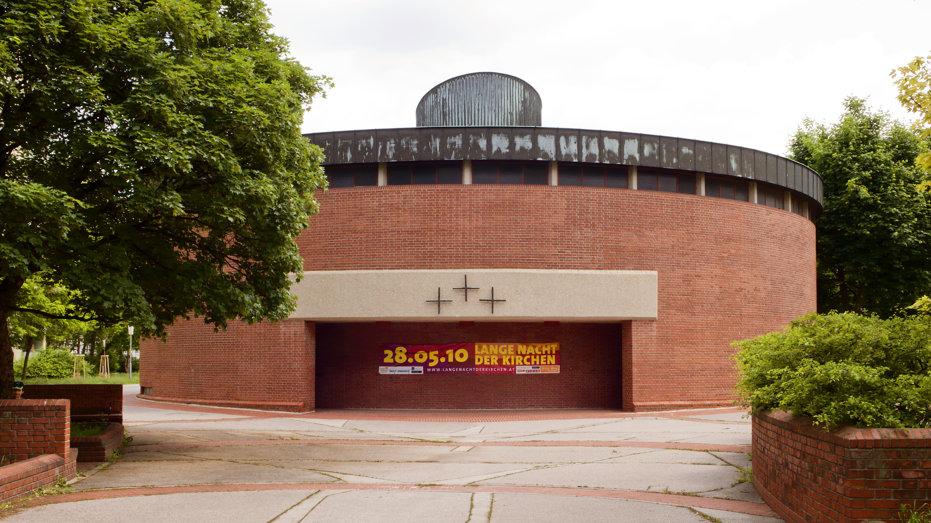 Church Pfarrkirche Auferstehung Christi (Wien) in Vienna Donaustadt